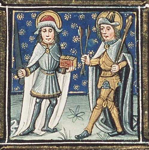 St. Fabian holding a book and a sword and St. Sebastian holding arrows and a sceptre.